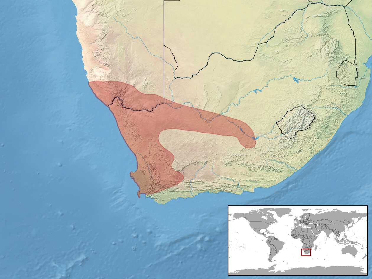 geographic distribution of Microacontias lineatus syn Acontias lineatus (Native: Namibia; South Africa)